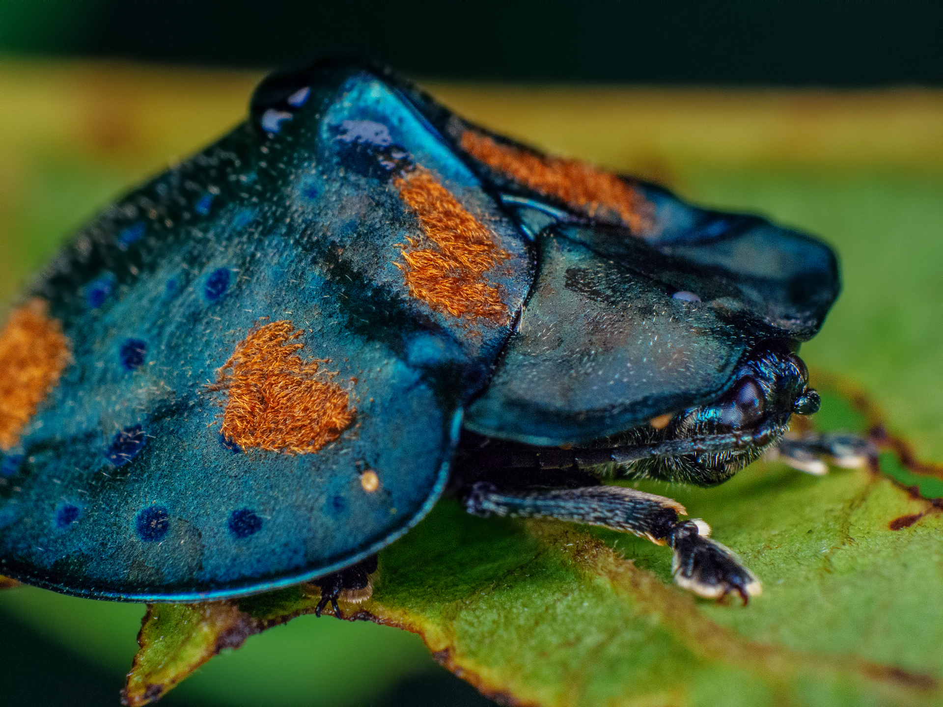 Blue and orange tortoise-beetle (Cassidinae, Stolas cf. conspersa) in Serra do Papagaio state park, Matutu valley, Aiuruoca, Brazil.